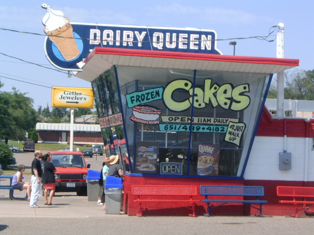 Dairy Queen "restaurant." Roseville, Minnesota. July 2, 2006.